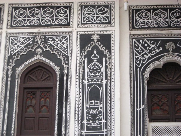 Chota Imambara, Lucknow